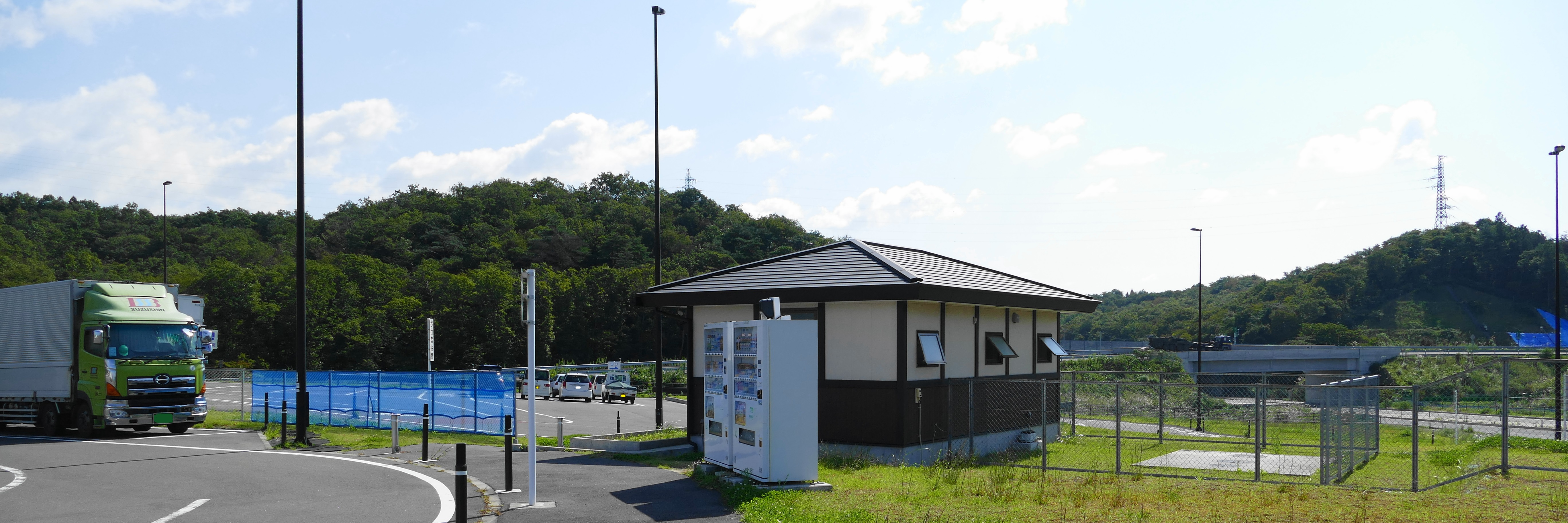 Ōhira small scale Parking Area,Miyagi prefecture,Japan